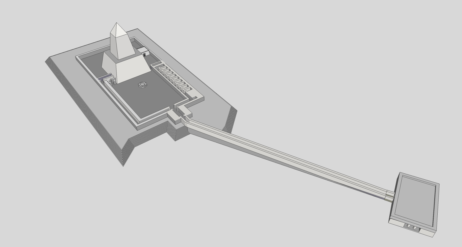 The sun Temple of Nyuserre Ini